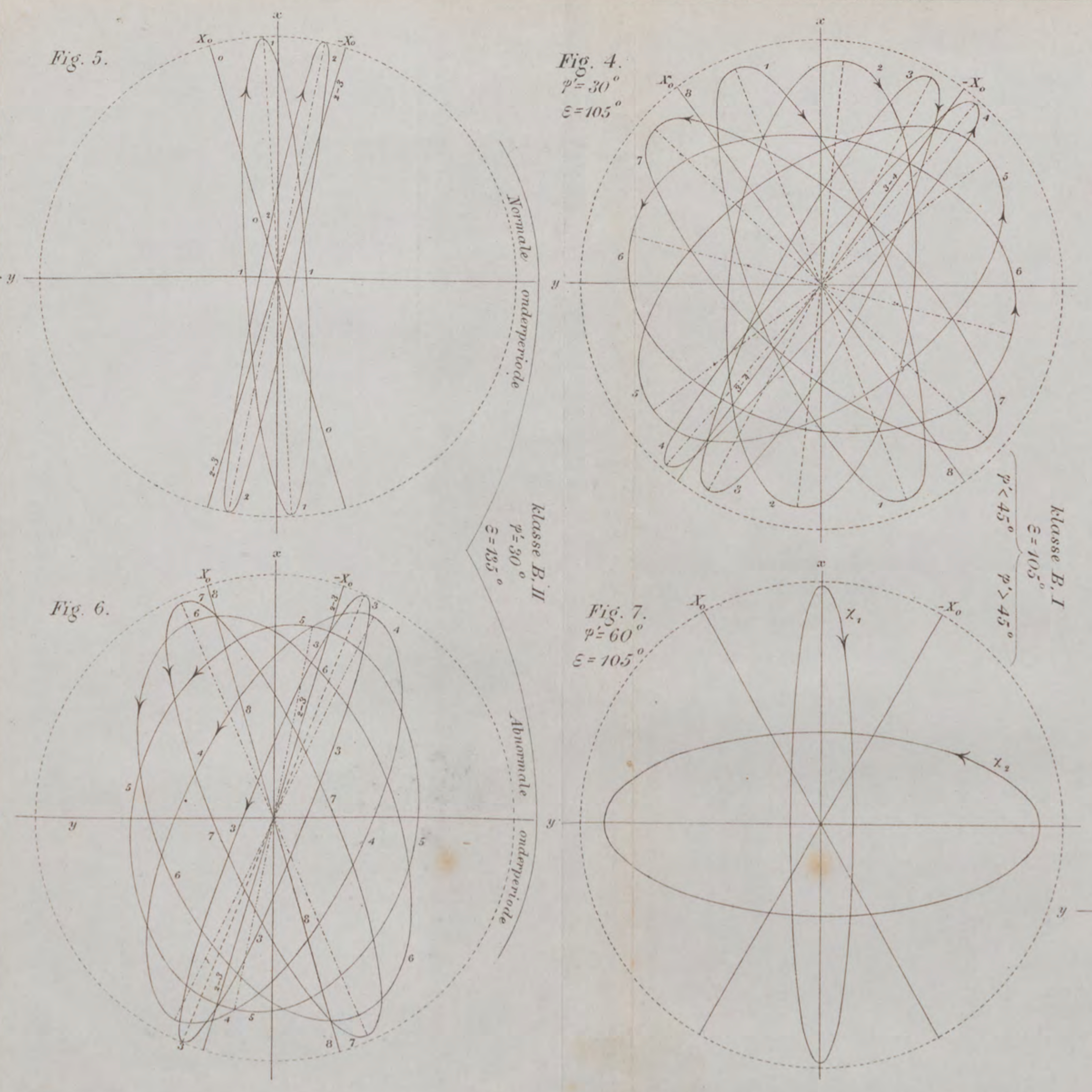 Kamerlingh Onnes"Nieuwe bewijzen voor de aswenteling der aarde" p.309